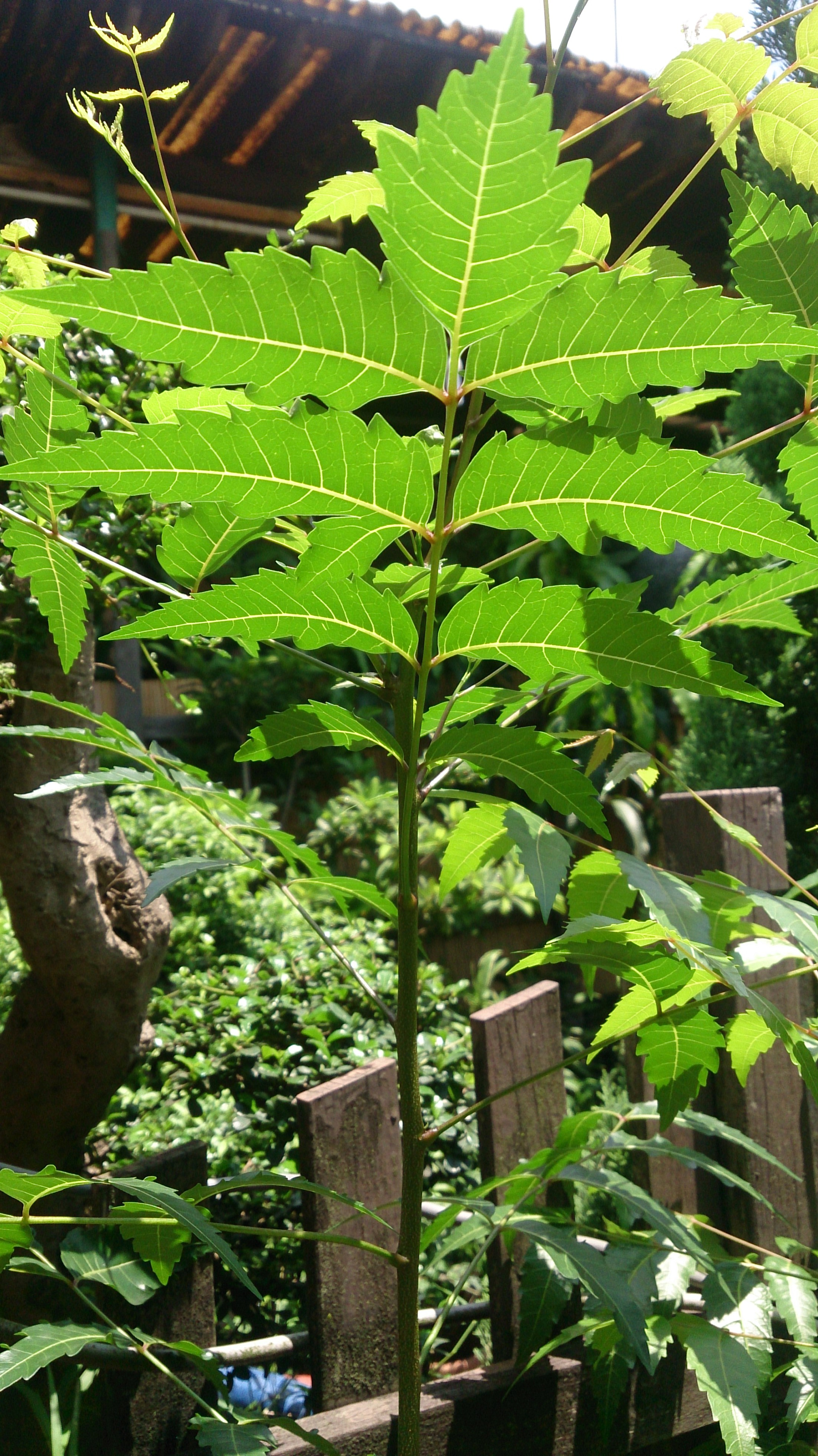 Azadirachta indica. Common names: Indian Lilac. Neem Tree.